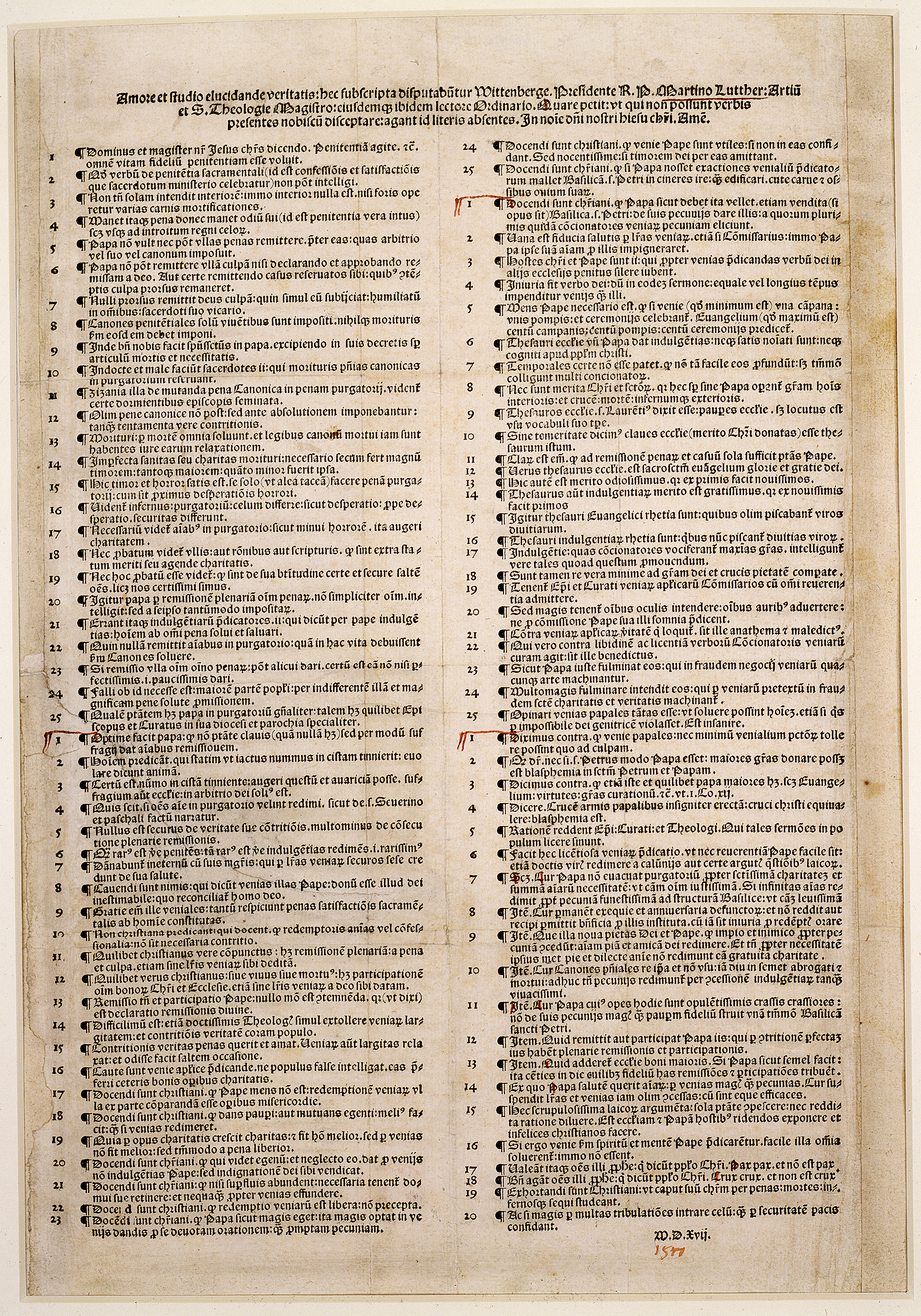 Martin Luther’s Disputatio pro declaratione virtutis indulgentiarum of 1517, commonly known as the Ninety-Five Theses, is considered the central document of the Protestant Reformation. Its complete title reads: “Out of love and zeal for clarifying the truth, these items written below will be debated at Wittenberg. Reverend Father Martin Luther, Master of Arts and of Sacred Theology and an official professor at Wittenberg, will speak in their defense. He asks this in the matter: That those who are unable to be present to debate with us in speech should, though absent from the scene, treat the matter by correspondence. In the Name of Our Lord Jesus Christ. Amen.” The document went on to list 95 clerical abuses, chiefly relating to the sale of indulgences (payment for remission of earthly punishment of sins) by the Roman Catholic Church. Luther (1483–1546), a German priest and professor of theology, became the most important figure in the great religious revolt against the Catholic Church known as the Reformation. While he intended to use the 95 theses as the basis for an academic dispute, his indictment of church practices rapidly spread, thanks to the then still-new art of printing. By the end of 1517, three editions of the theses were published in Germany, in Leipzig, Nuremberg, and Basel, by printers who did not supply their names. It is estimated that each of these early editions was of about 300 copies, of which very few survived. This copy in the collections of the Berlin State Library was printed in Nuremberg by Hieronymus Höltzel. It was discovered in a London bookshop in 1891 by the director of the Berlin Kupferstichkabinett (Museum of Prints and Drawings) and presented to the Royal Library by the Prussian Ministry for Education and Culture.